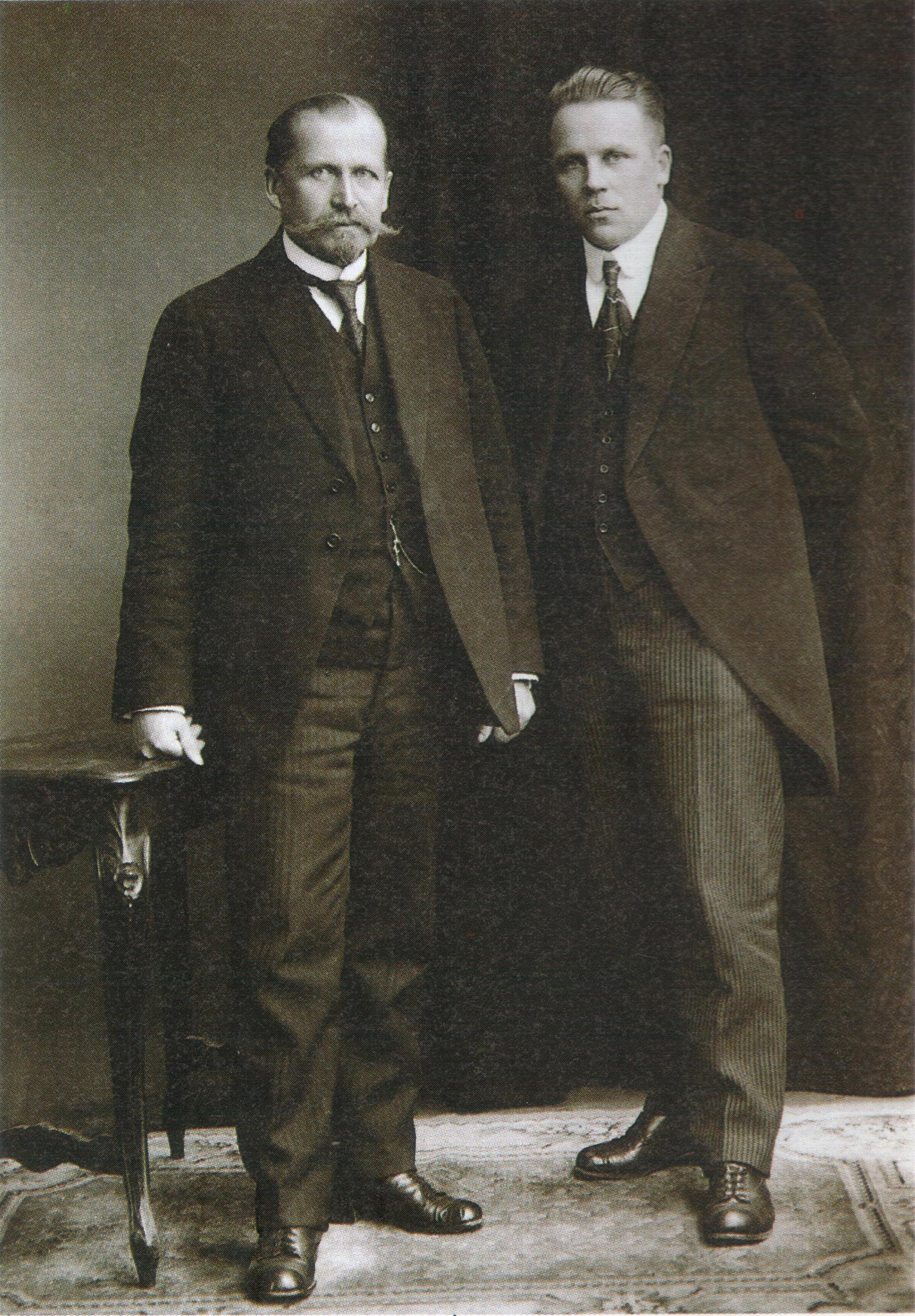 Kyösti Kallio and Juho Niukkanen.